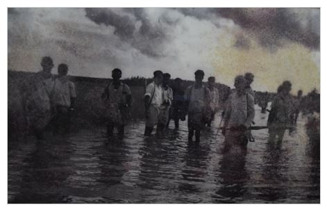 একাত্তরে বাহাদুরাবাদ ঘাট মুক্ত করার অভিযান। ছবিটি তুলেন মুক্তিযোদ্ধা হারুন হাবীব এবং দলের অধিনায়ক ছিলেন মেজর শাফায়াত জামিল